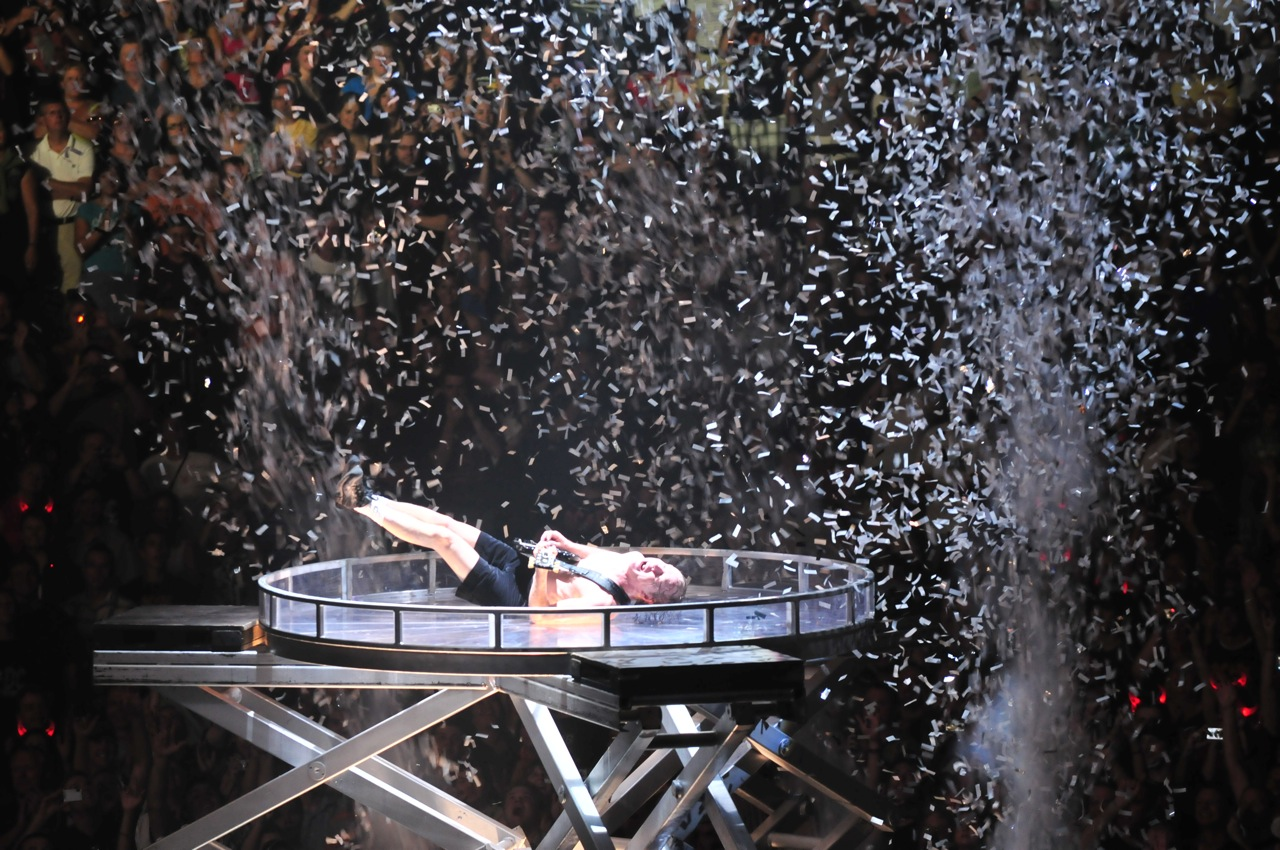 I, Adrian Buss took this picture at Scotiabank Place in Ottawa 11 August 2009. You may use it as you wish. Would be nice if you let me know. To see more of Angus and the guys antics you can go to